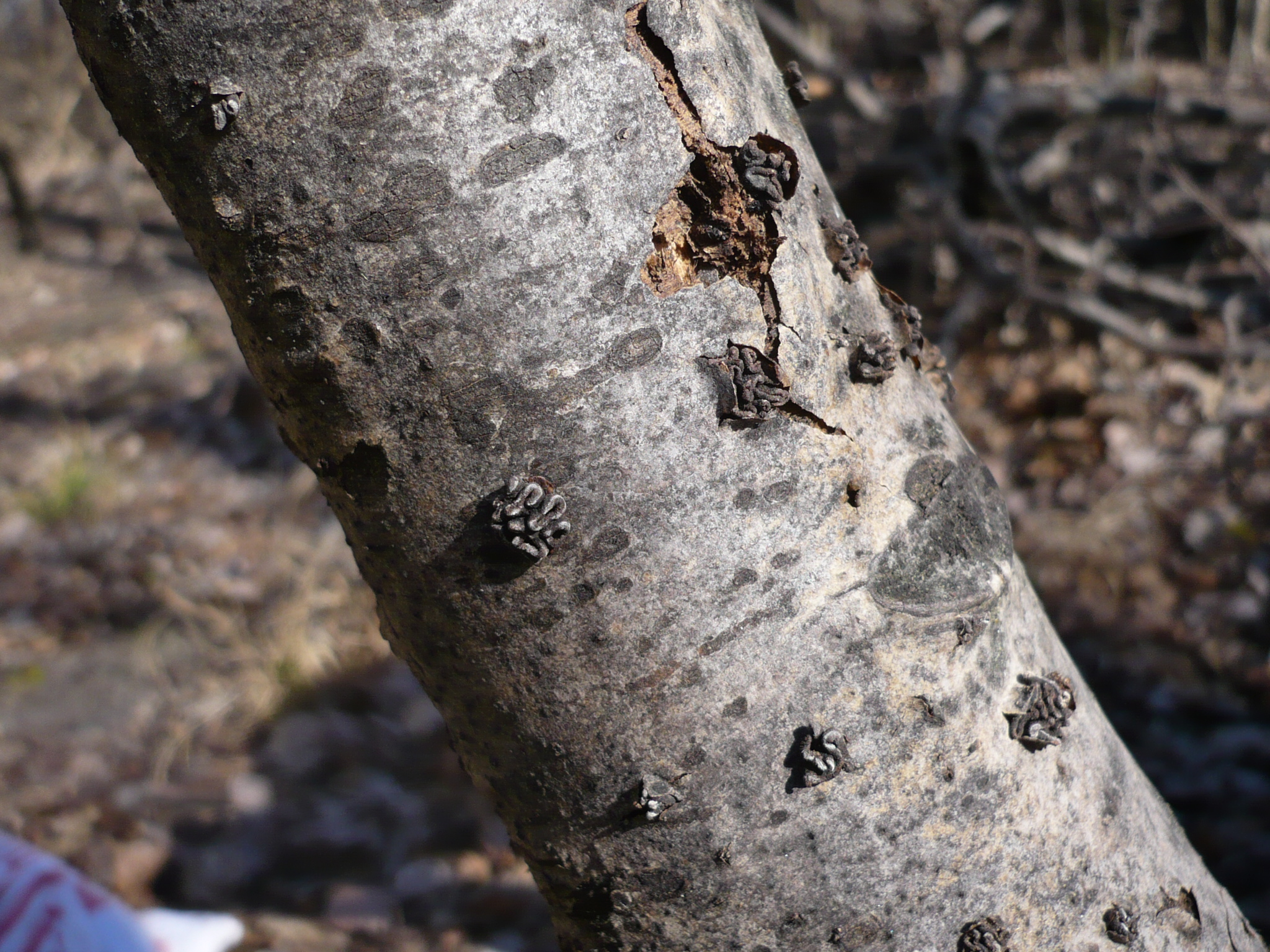 Encoelia fascicularis Image location: Prater, Vienna, Austria [admin – Sat Aug 14 02:04:54 +0000 2010]: Changed location name from ‘Prater,Vienna’ to ‘Prater, Vienna, Austria’ Recognized by sight: on Populus For more information about this, see the observation page at Mushroom Observer.